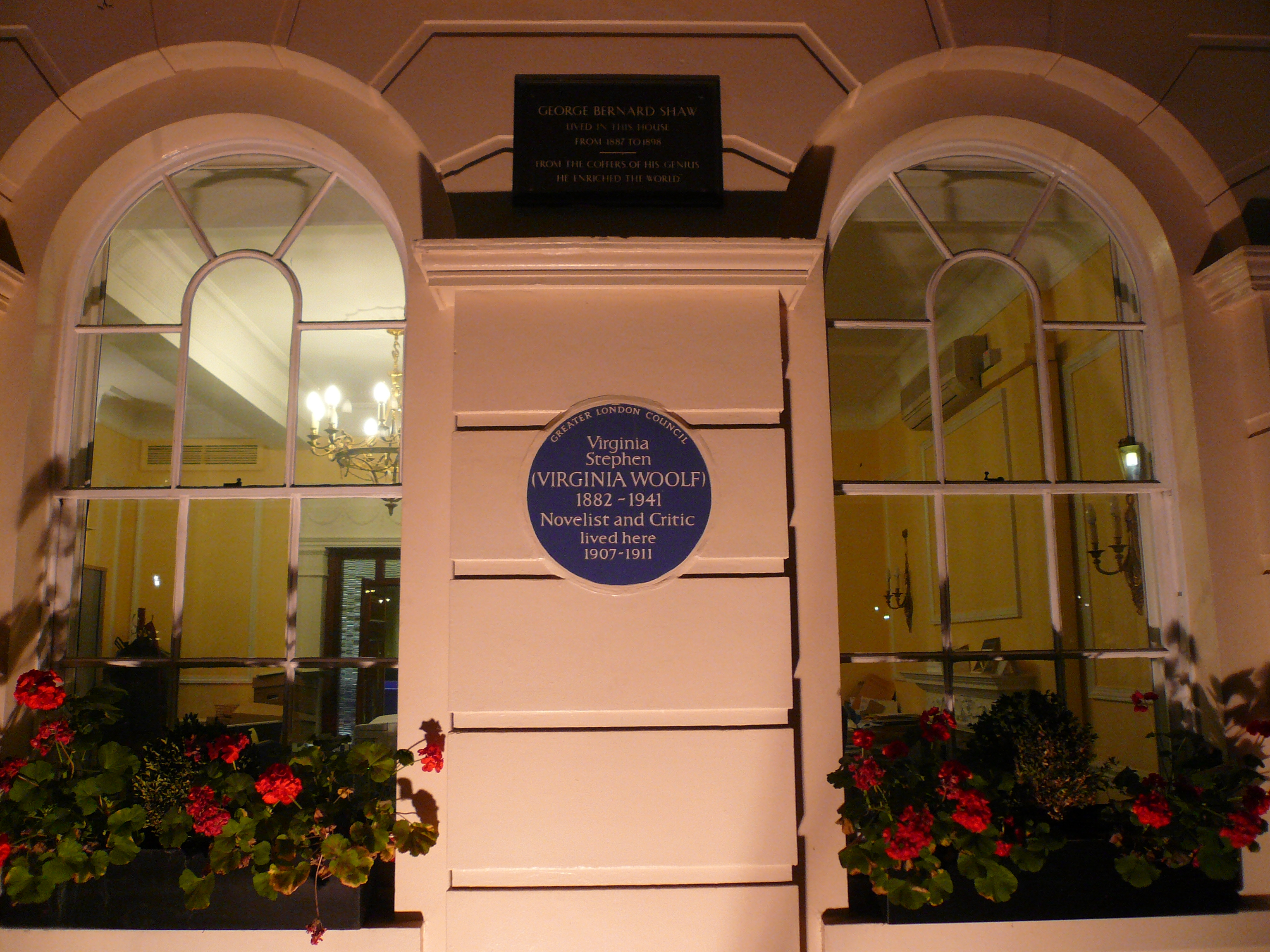 Blue plaques at 29 Fitzroy square former home of first George Bernard Shaw, and later Virginia Woolf of the Bloomsbury Group